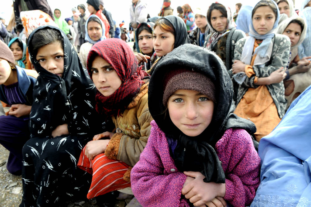 GOZARAH, Afghanistan-Village girls wait as the Afghan National Police unload a shipment of humanitarian aid at their village, Feb. 4. Food, winter clothing and supplies were delivered to 300 villagers of Gozarah district in Herat province of western Afghanistan. (ISAF photo by U.S. Air Force TSgt Laura K. Smith)(released)